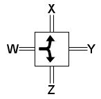 This schematic illustrates the conjugate ports of a hybrid coil. W and Y are conjugates. So are X and Z. Signal into port W splits between X and Z and none to Y, the conjugate. Similarly for all other ports.